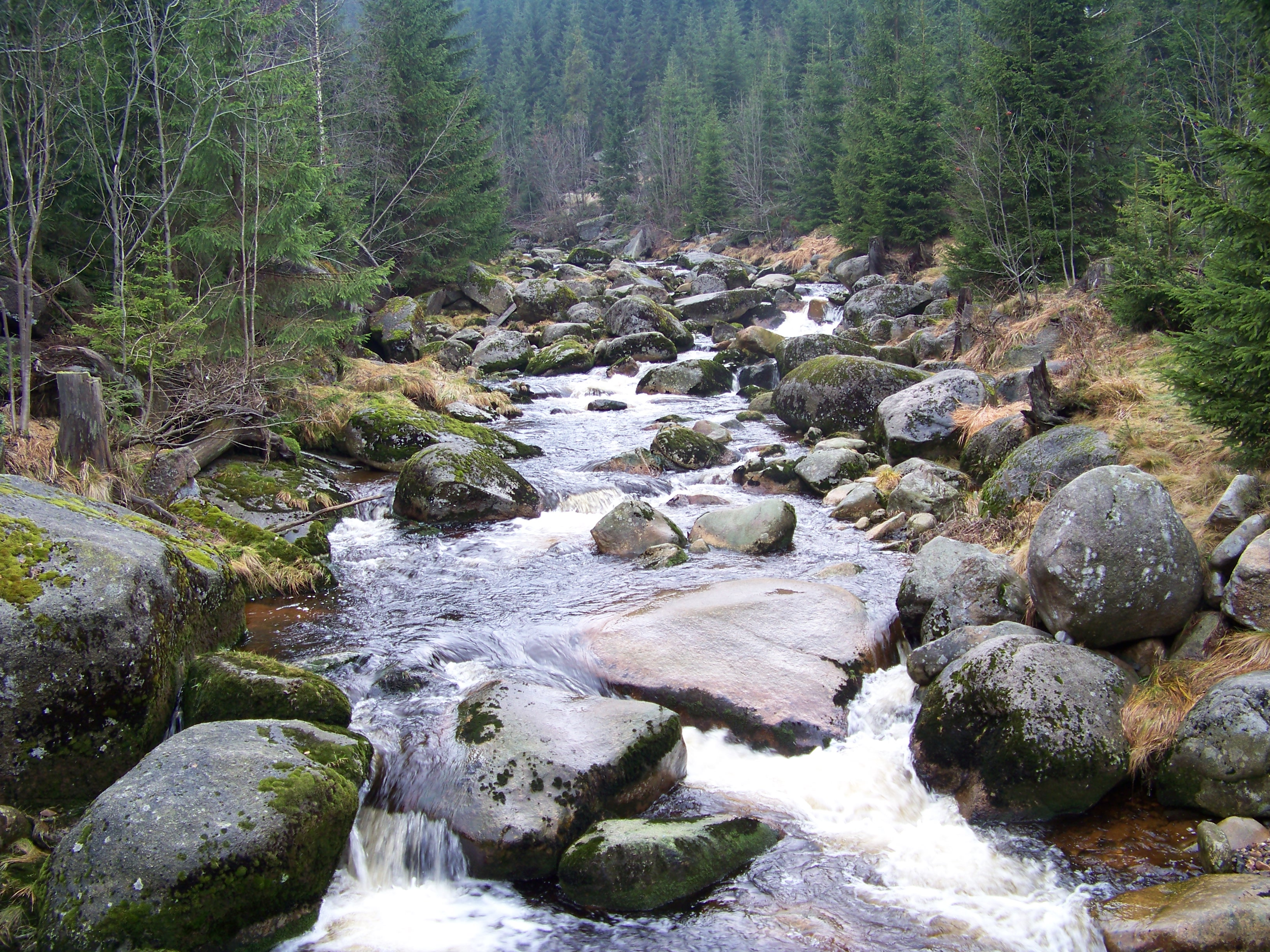 Kořenov-Jizerka, Jablonec nad Nisou District, Liberec Region, the Czech Republic. Jizerka River. - Google Maps - Google Earth